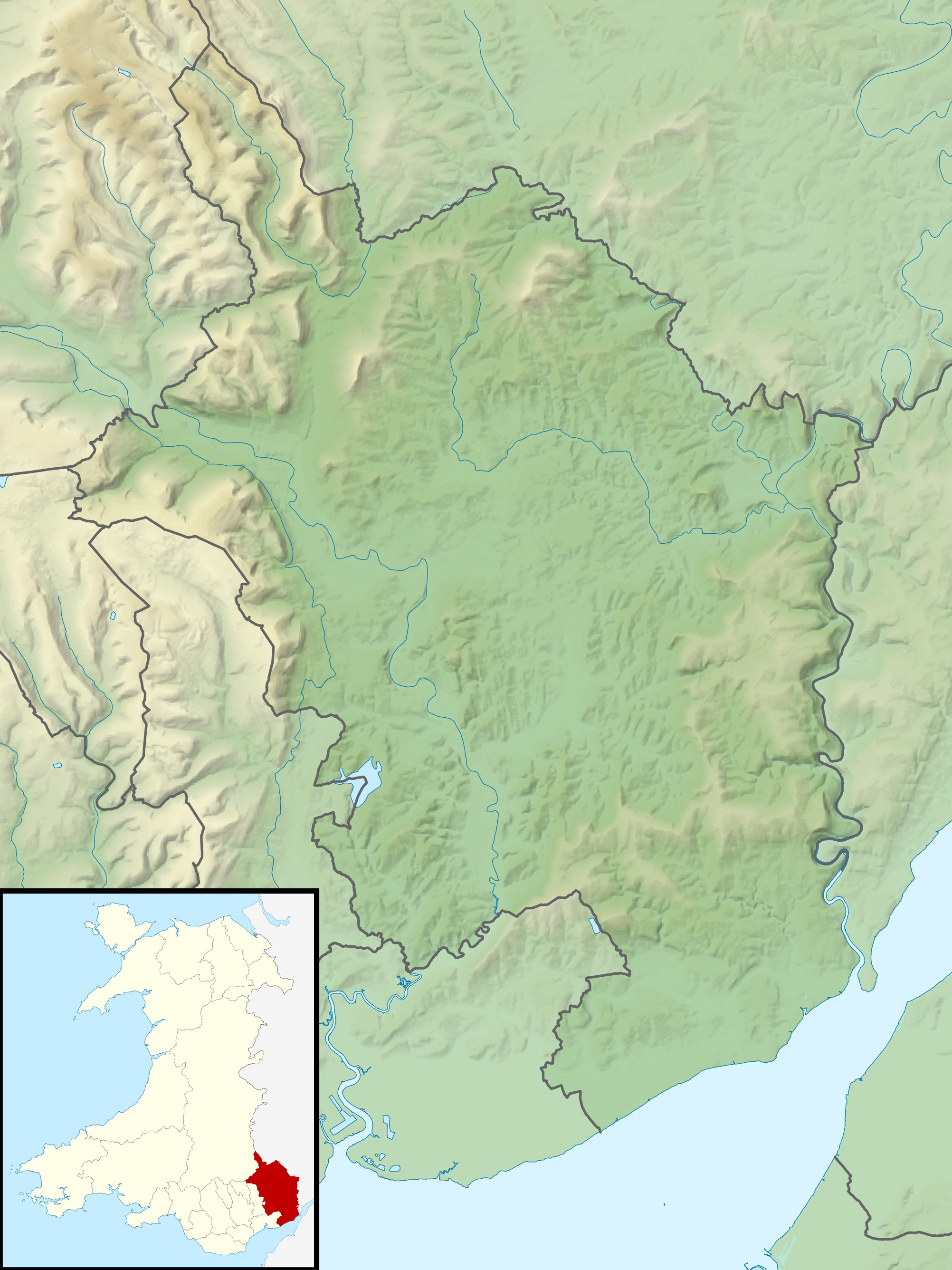 Relief map of Monmouthshire, UK. Equirectangular map projection on WGS 84 datum, with N/S stretched 160% Geographic limits: West: 3.20W East: 2.60W North: 52.00N South: 51.50N